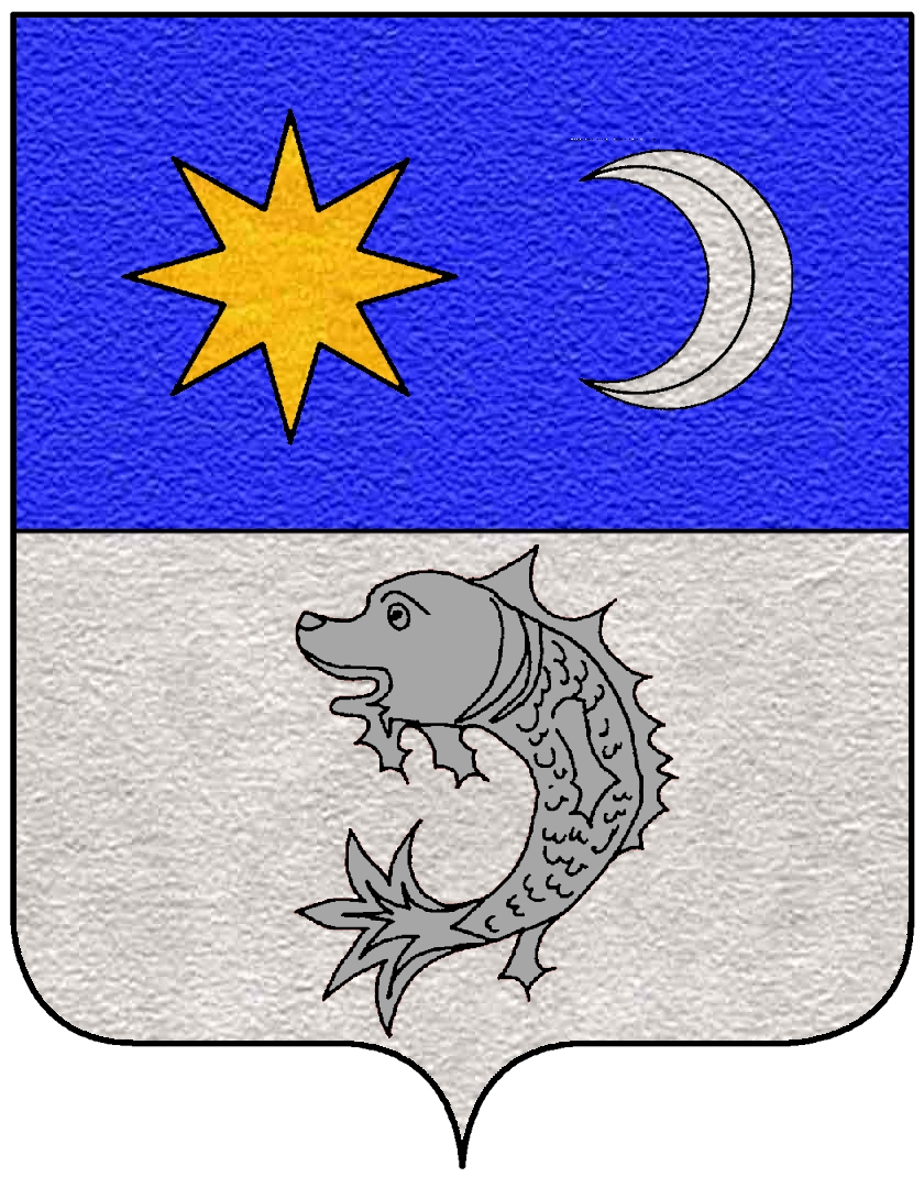 Coat of arms of the Bosdari/Božidarević noble family, Republic of Ragusa